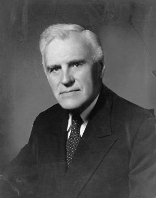 Ralph W. Gwinn, Congressman from New York